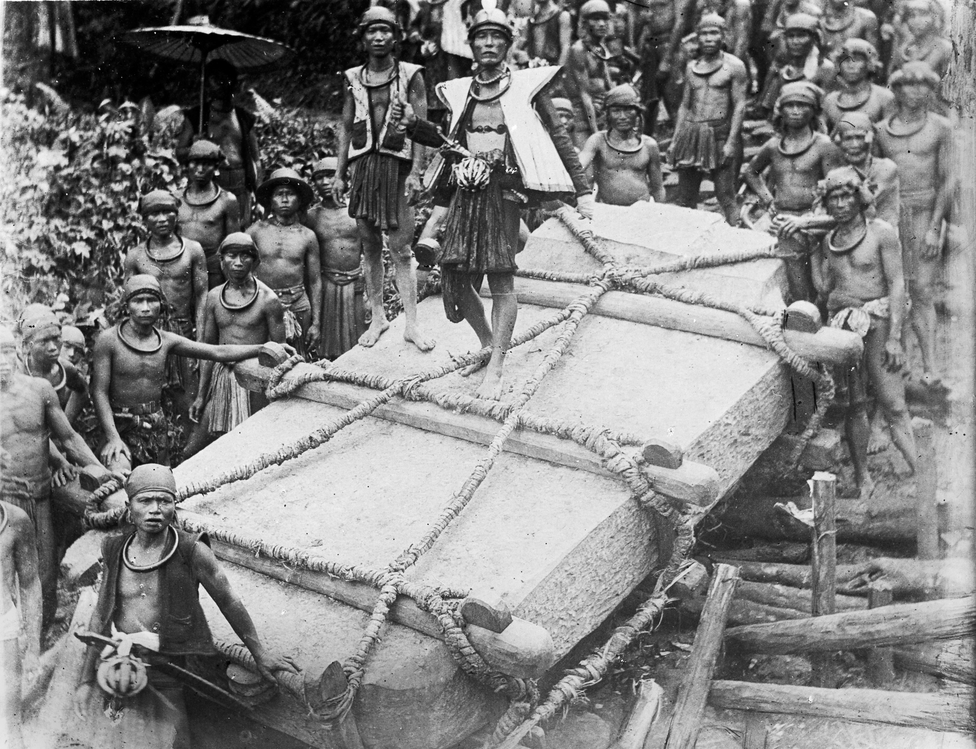 Repronegative. Big stones (megaliths), some nicely decorated, were a part of the culture of the island of Nias. There were big stone statues, stone seats for the chieftains and stone tables were justice was done. There were also big stones needed to commemorate of important deceased people. When such a stone was errected, a ritual feast was to be given. All this to enable a nobleman to join his godly ancestors in the afterlife. On the photo such a stone is hauled upwards. The story has it that it took 525 people three days to erect this stone in the vilage of Bawemataloeo. (P. Boomgaard, 2001)